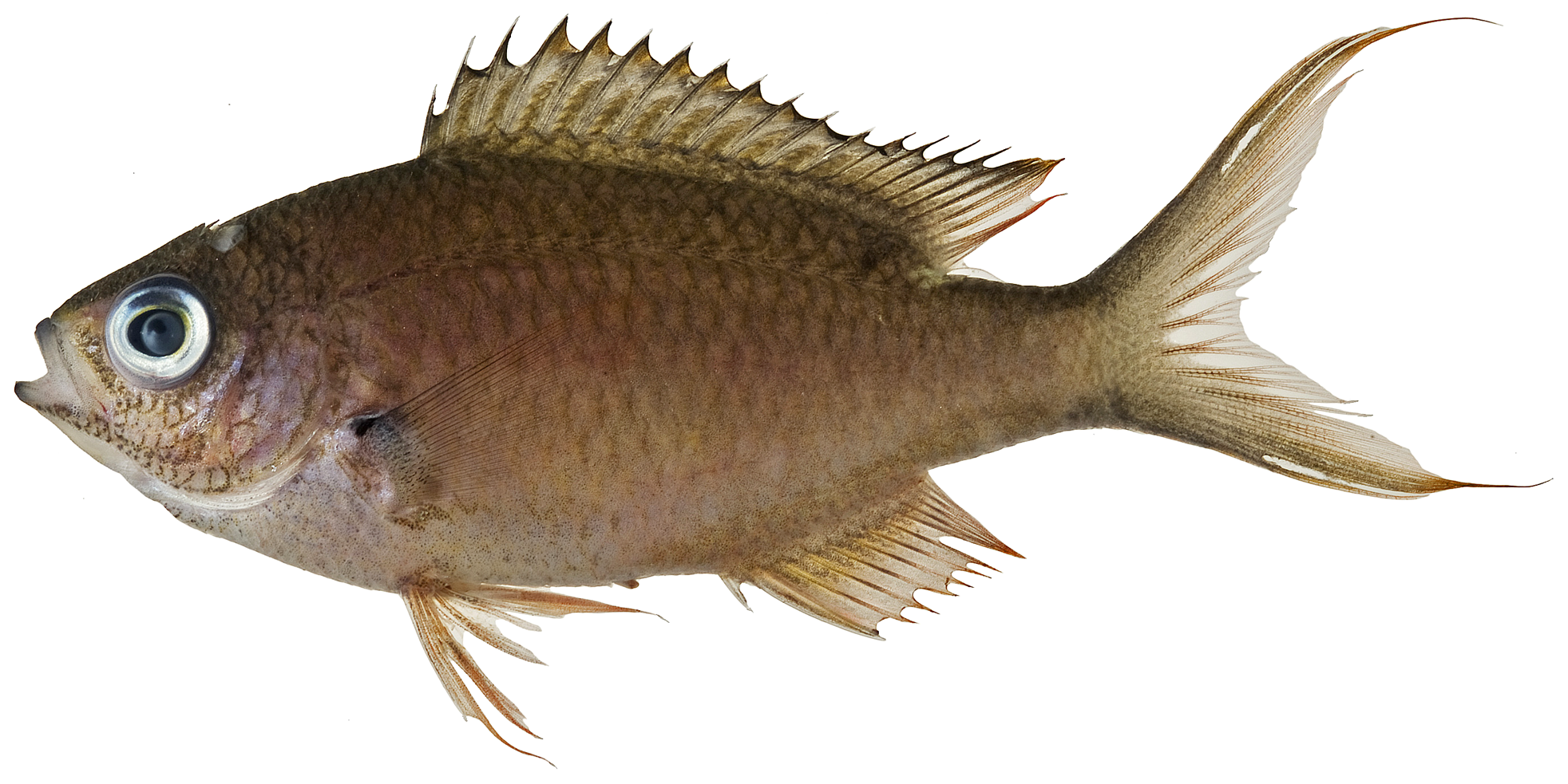 Chromis multilineata (Guichenot, 1853)—brown chromis, 56.3 mm SL. Photo by JT Williams.